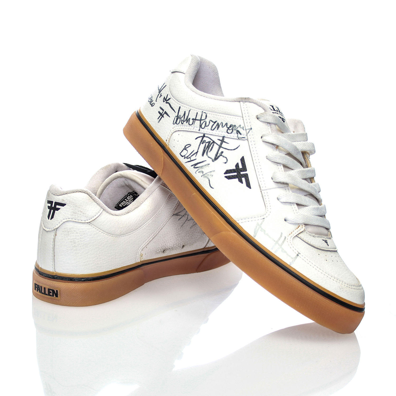 White Fallen Footwear shoes signed by founder Jamie Thomas, Josh Harmony, and Billy Marks.